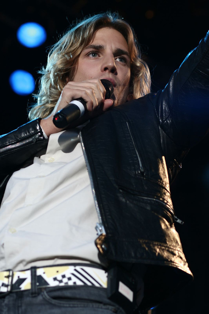 Martin Rolinski performing live with BWO during Stockholm Pride 2007